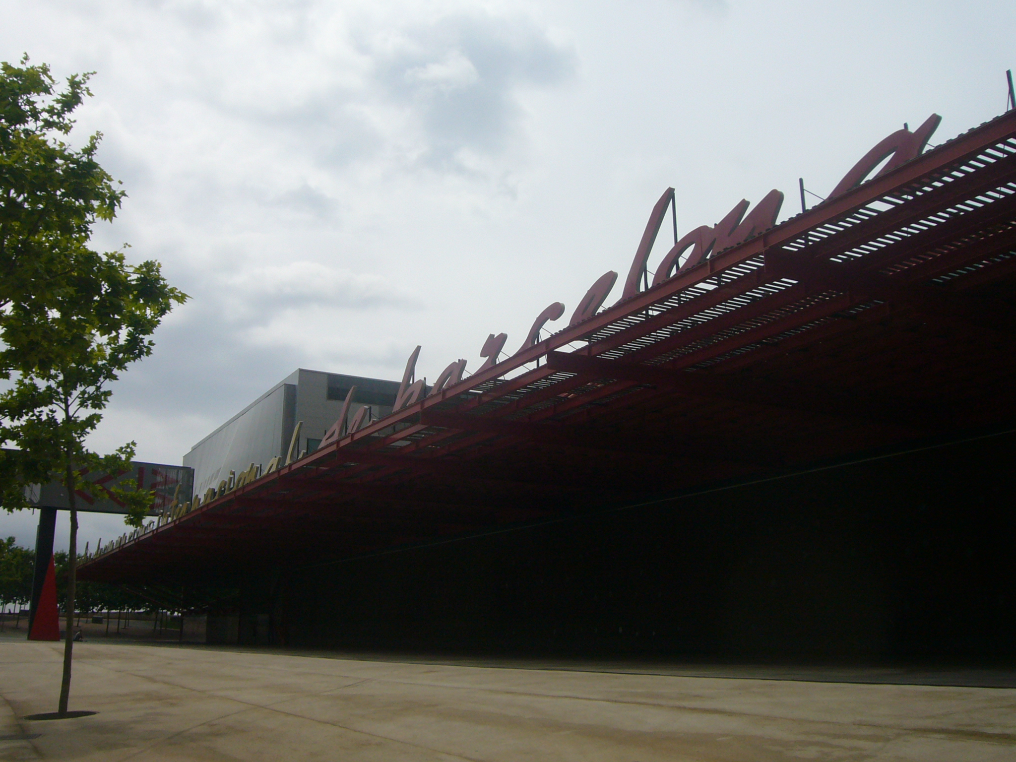 Centre de Convencions Internacional de Barcelona